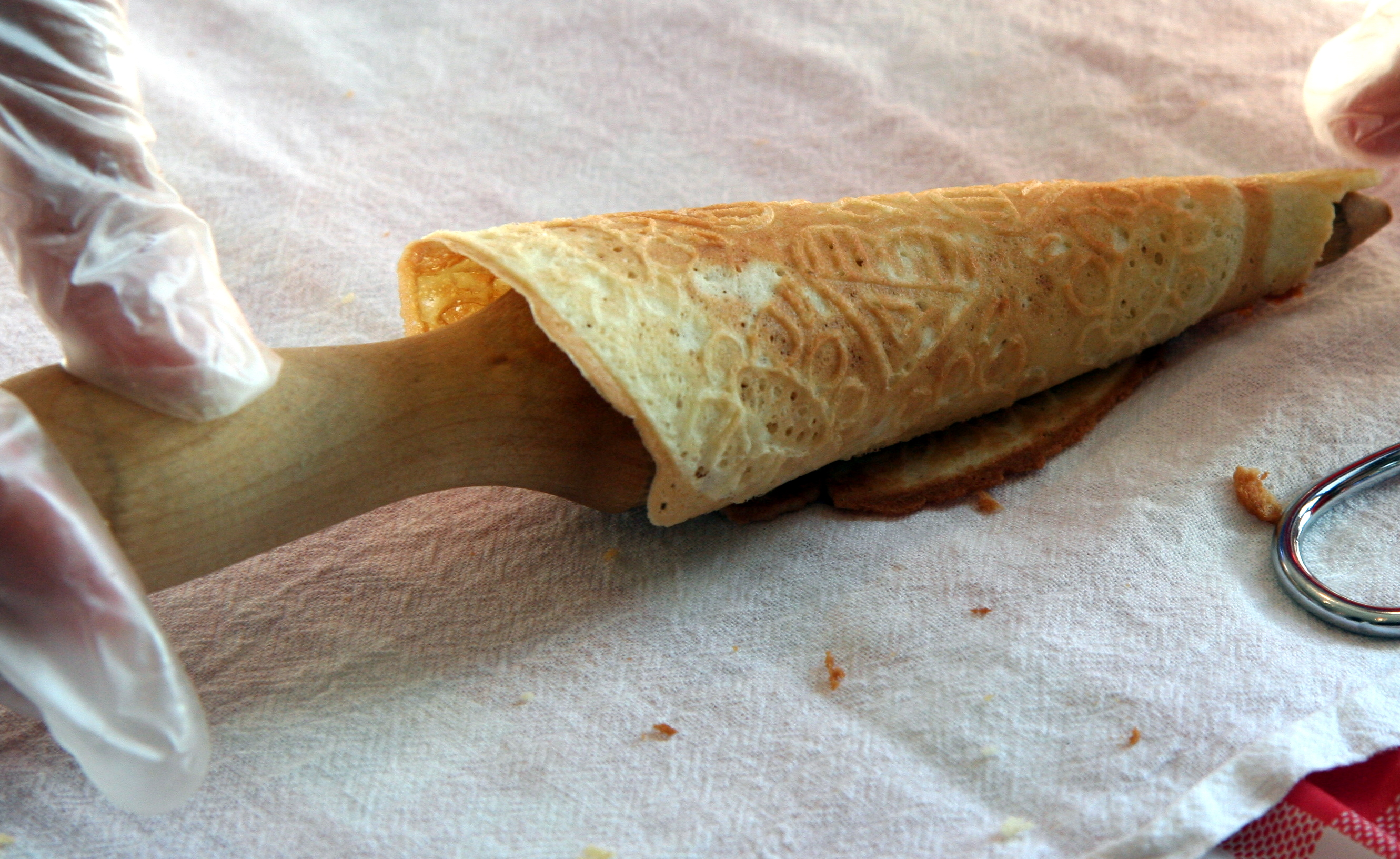 Warm krumkake fresh from the hot iron being shaped with a conical wooden rolling pin in a cooking demonstration at Vesterheim Norwegian-American Museum in Decorah, Iowa